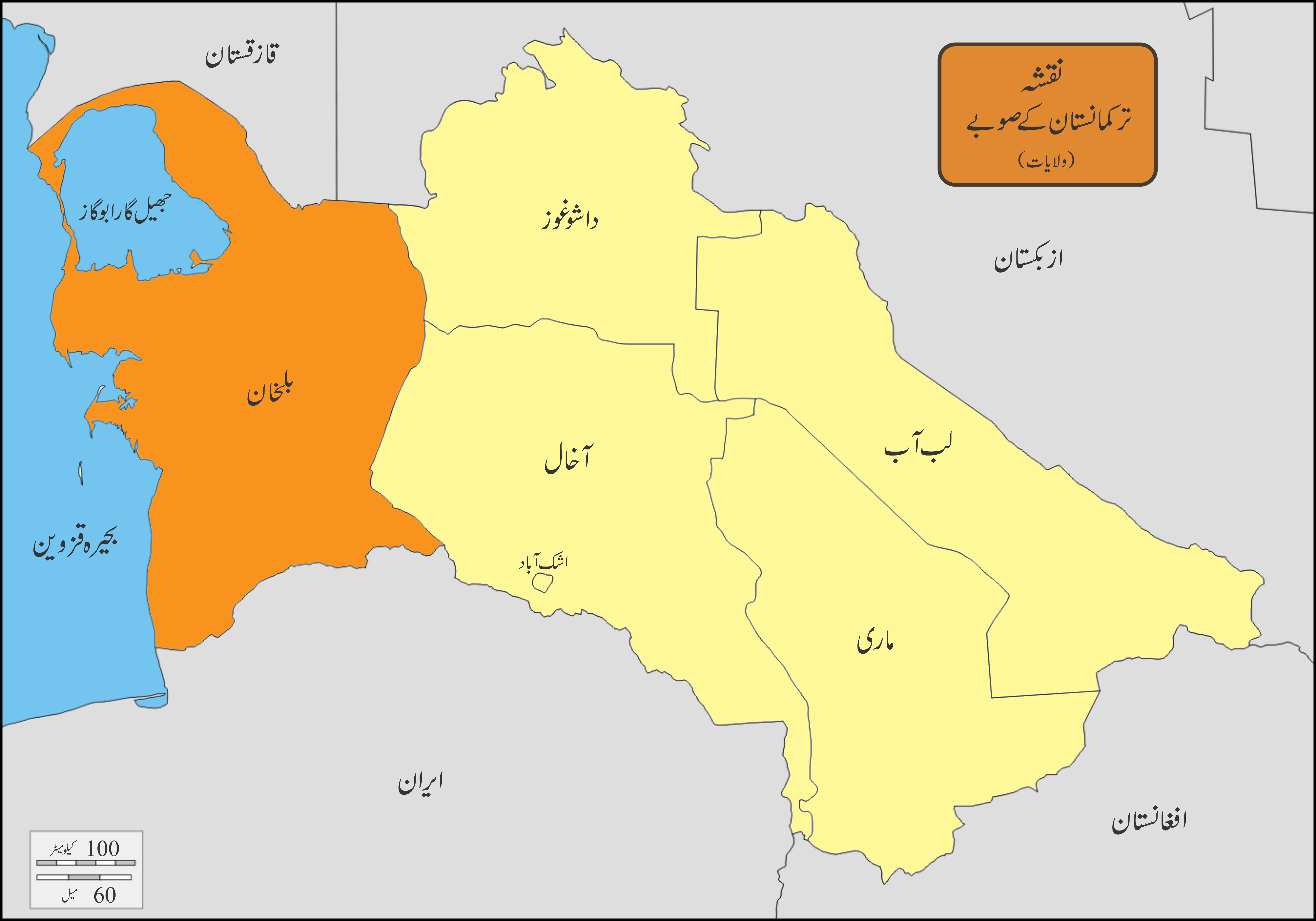 Turkmenistan Ur Balkan